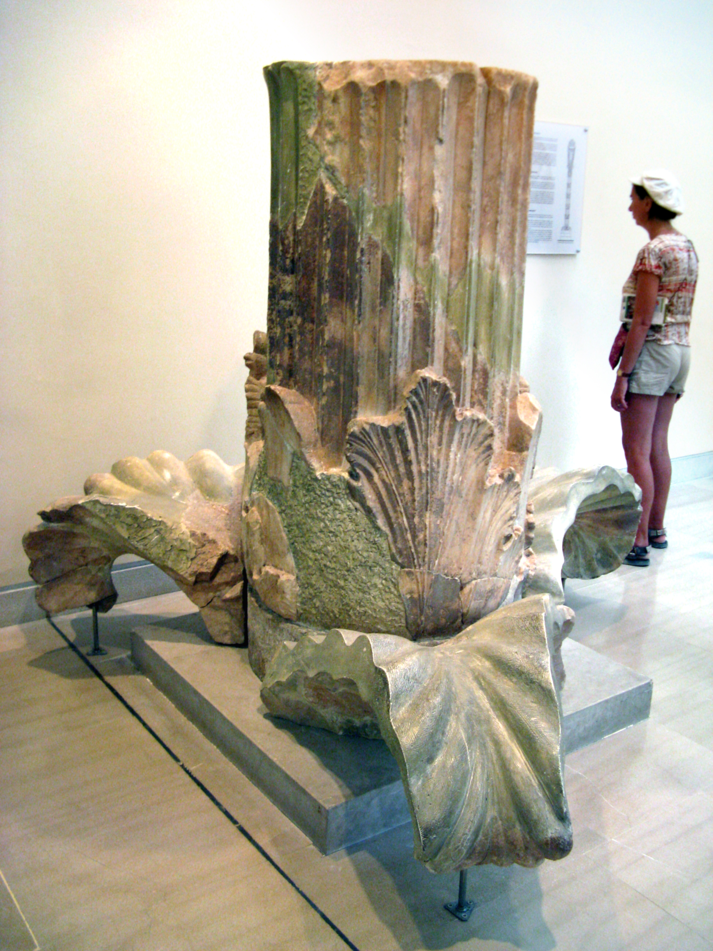 Base of Corinthian column